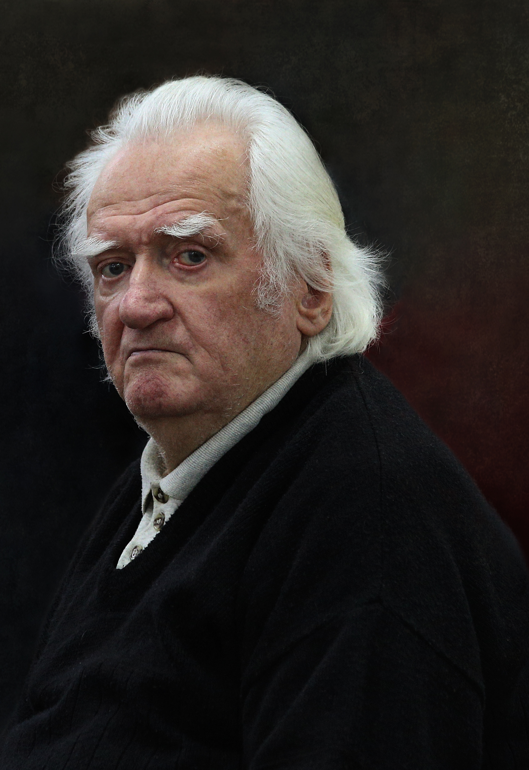 Belarusian painter Anatol Baranowski. Photo by Eugeny Kolchev